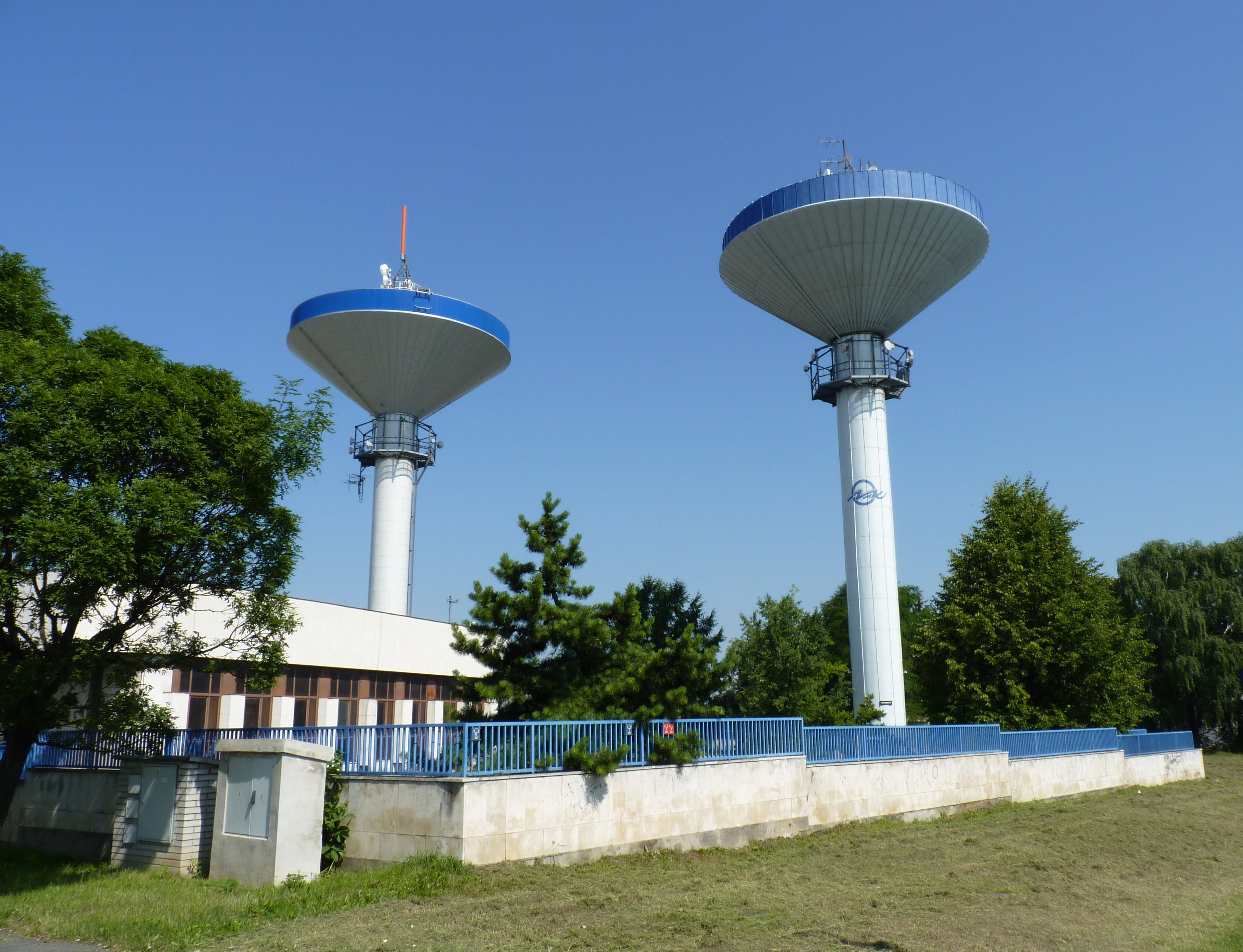 Slezská Ostrava. Ostrava-city District, Moravian-Silesian Region, Czech Republic